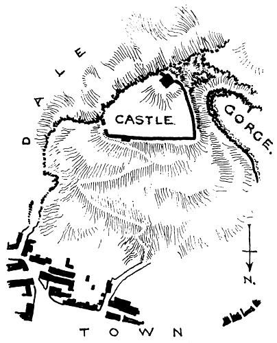 Description: Public domain image from From Old Books Source: The Growth of the English House Author: Gotch, J. Alfred Date: 1909 Category:Derbyshire